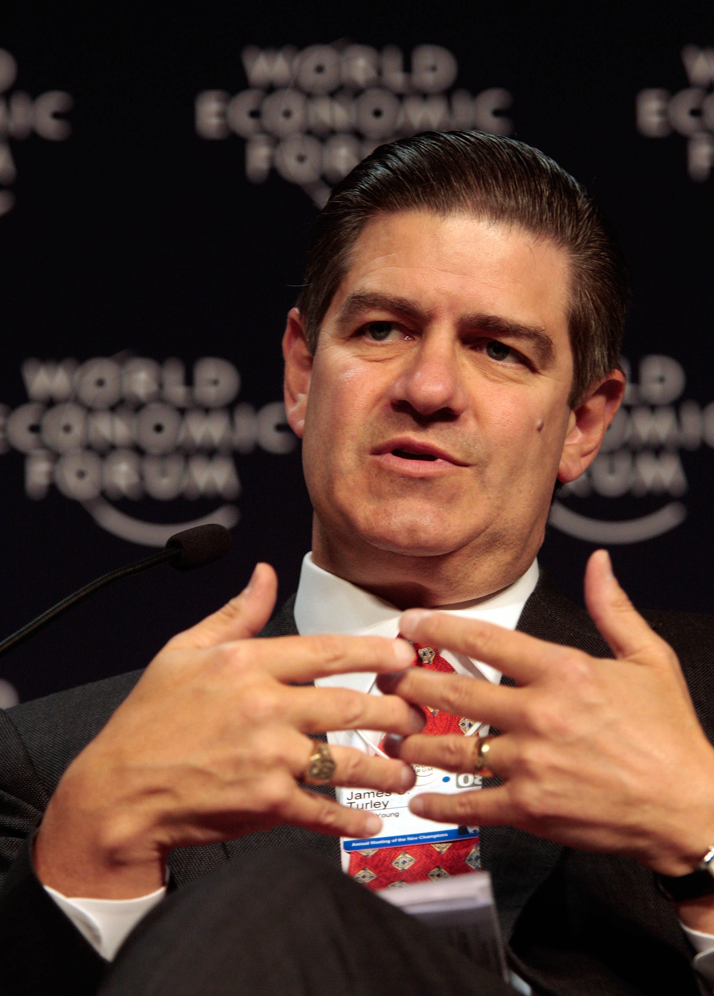 TIANJIN/CHINA, 26SEPT08 - World Economic Forum Annual Meeting of the New Champions summit mentor James S. Turley, Chairman and Chief Executive Officer of Ernst & Young, speaks during a press conference in Tianjin, China 26 September 2008. Copyright World Economic Forum ( by Natalie Behring